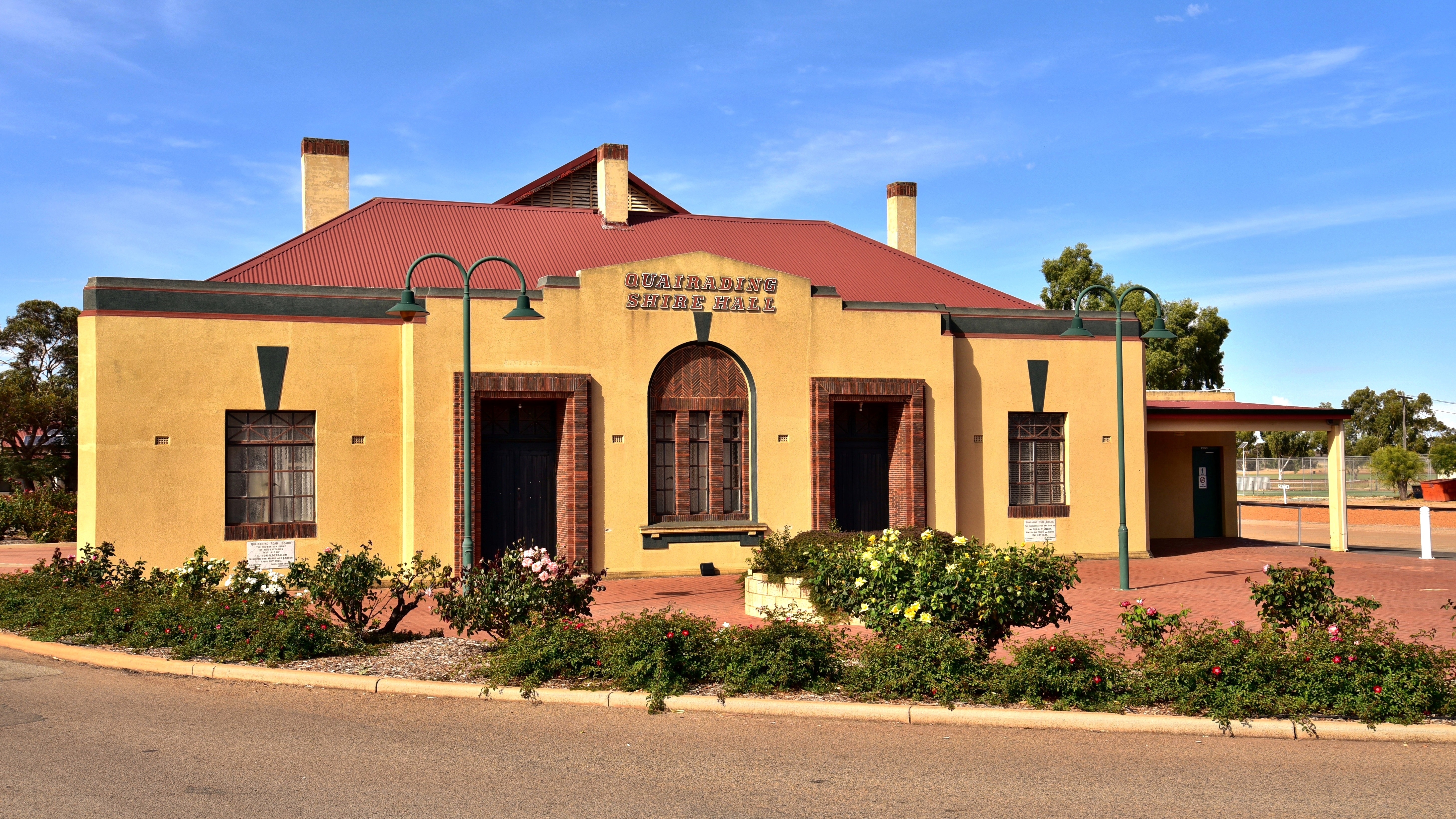 View of the Shire Hall, Jennaberring Road, Quairading, Western Australia